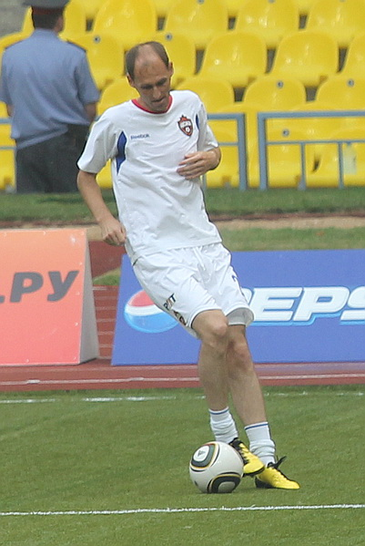 Elvir Rahimić